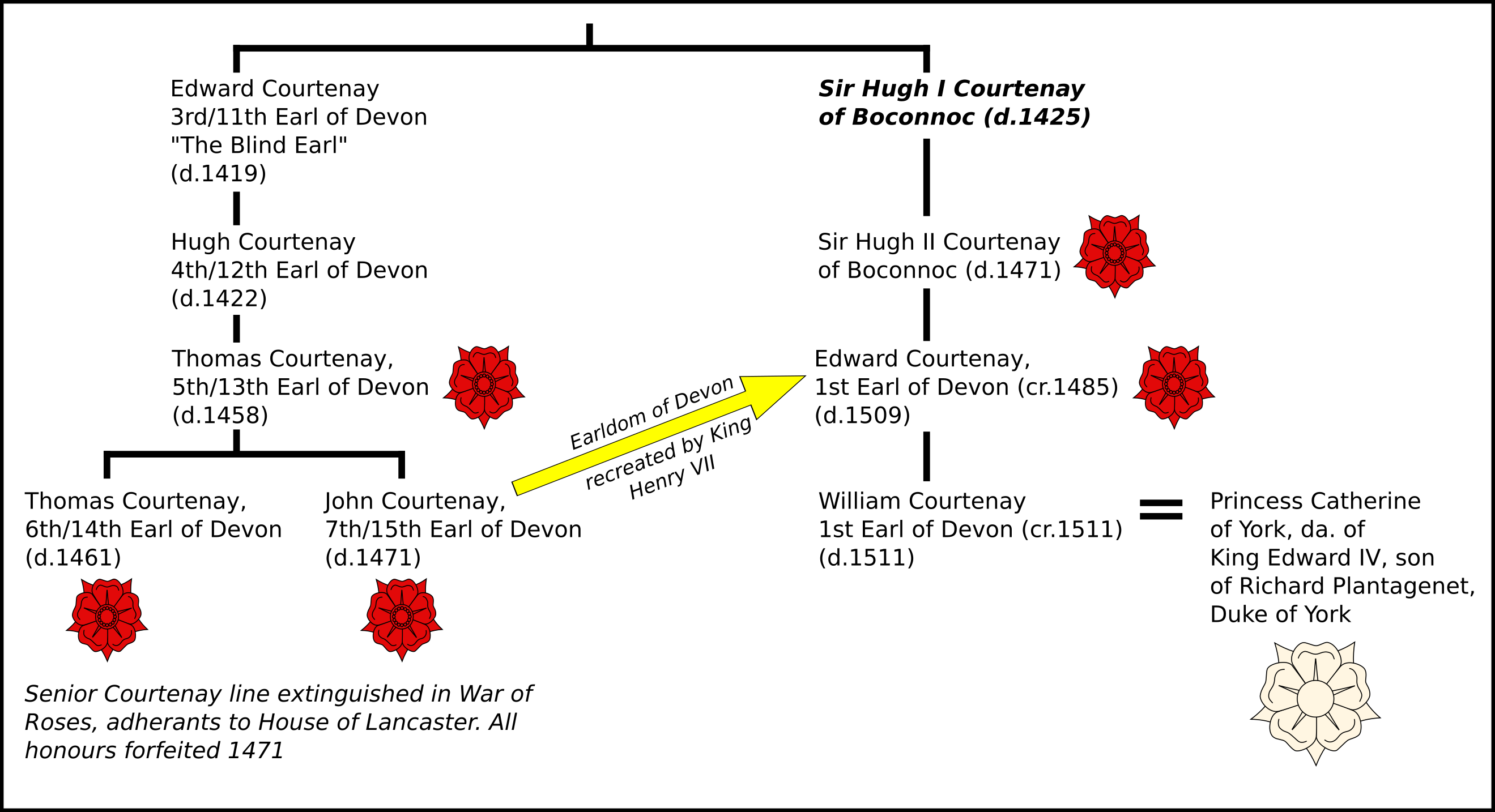 Diagram showing the descent of the Courtenay Earls of Devon during the Wars of the Roses